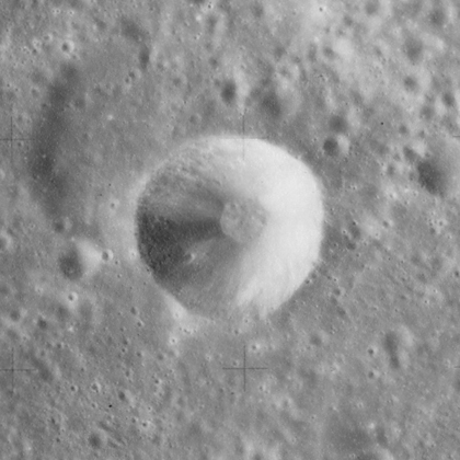 Schorr C crater, north of Schorr, on the moon.